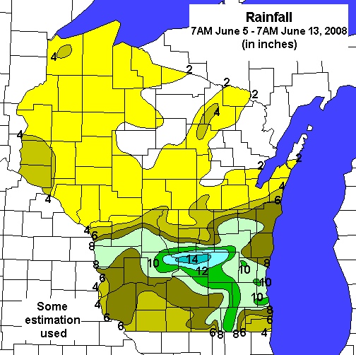 Caption was:Here is another rainfall map showing totals for a week time frame, during which the bulk of the rainfall occurred. (Week refers to June 5, 2008 to June 13, 2008)